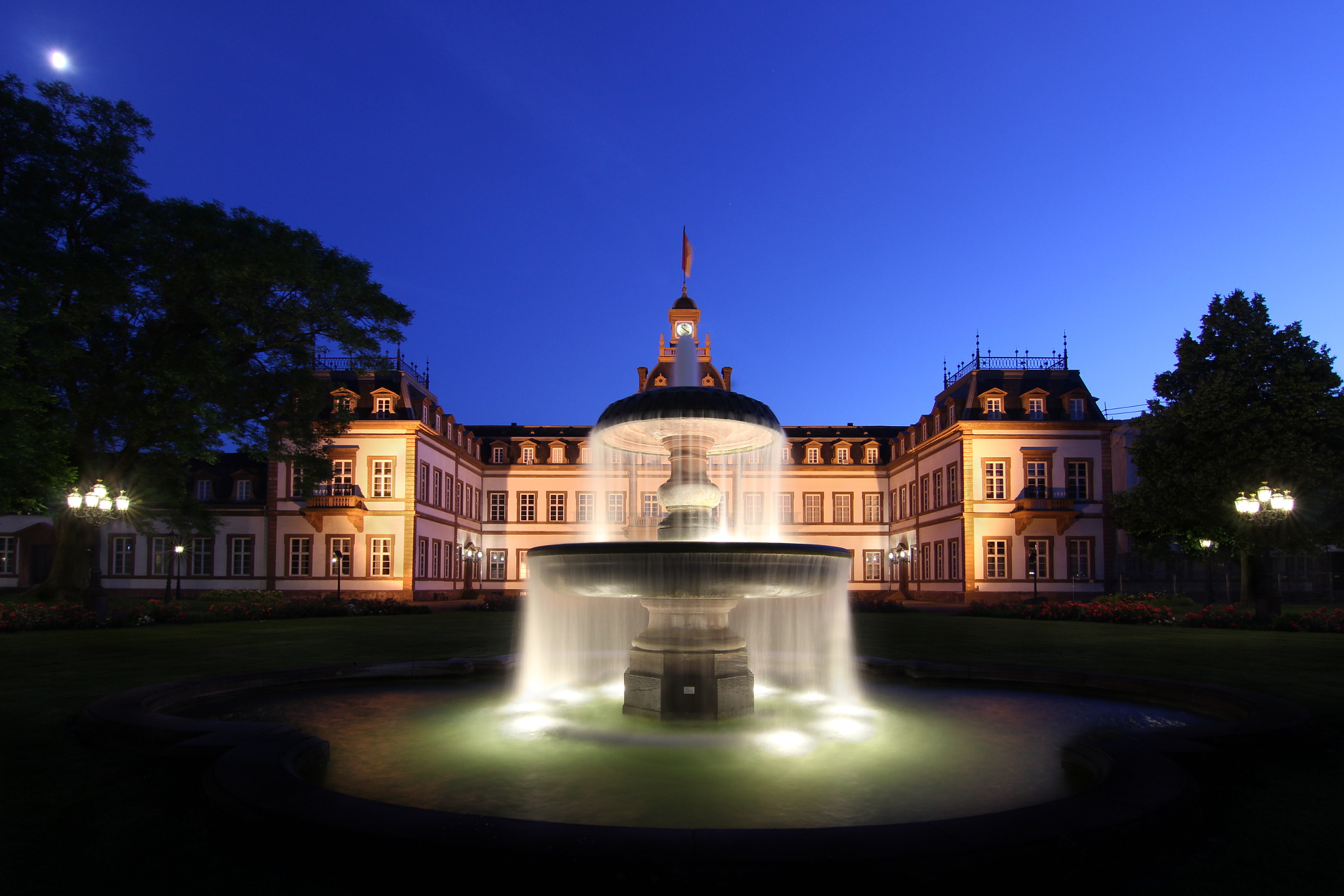 Romantic Philippsruhe castle in Hanau / Germany after sunset